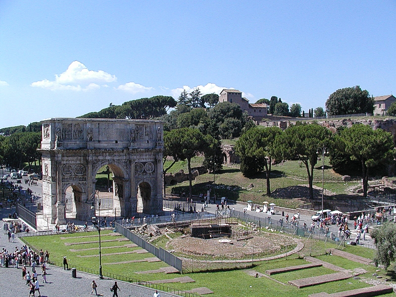 Arch of Constantine (Rome)